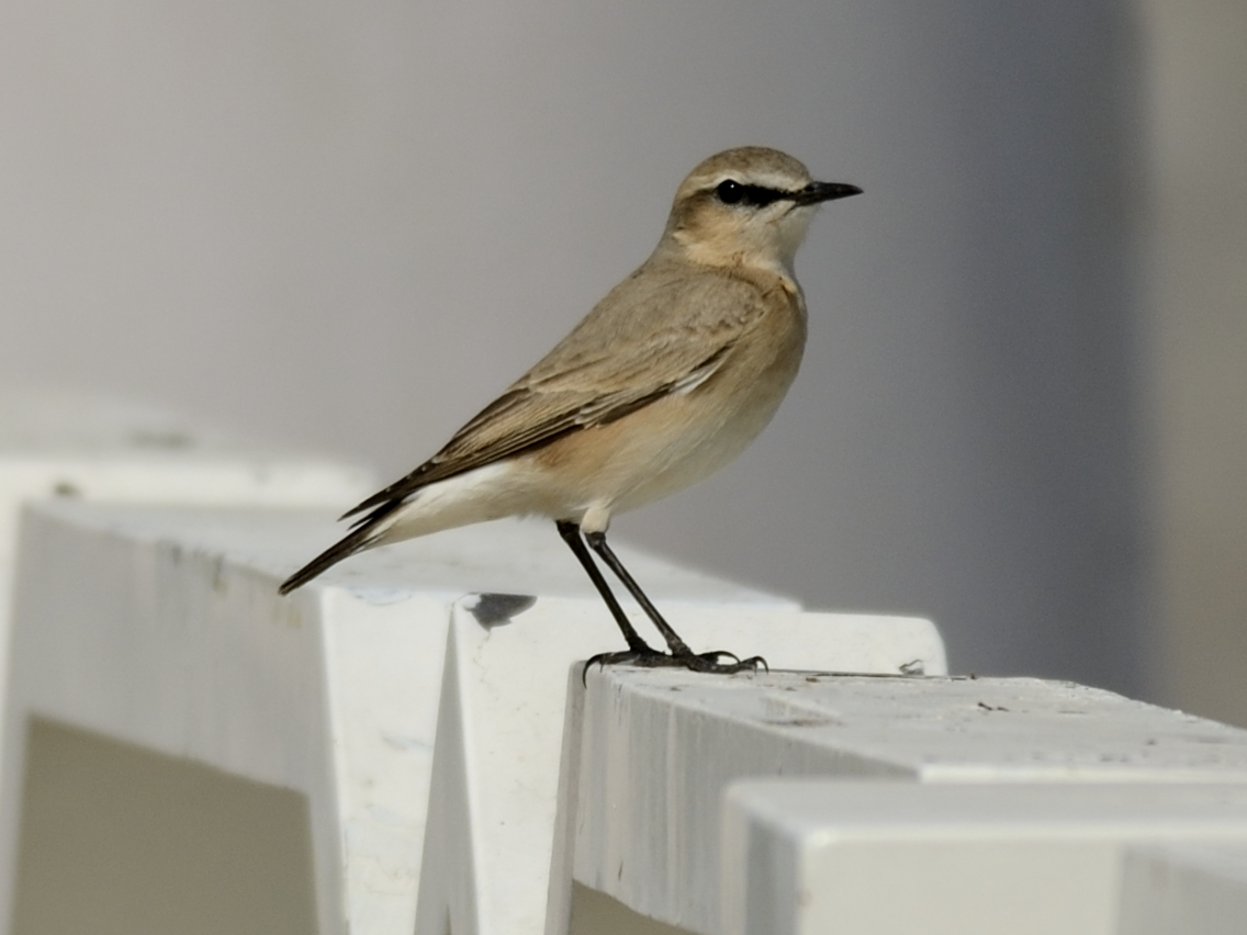 Isabelline Wheatear (Oenanthe isabellina)